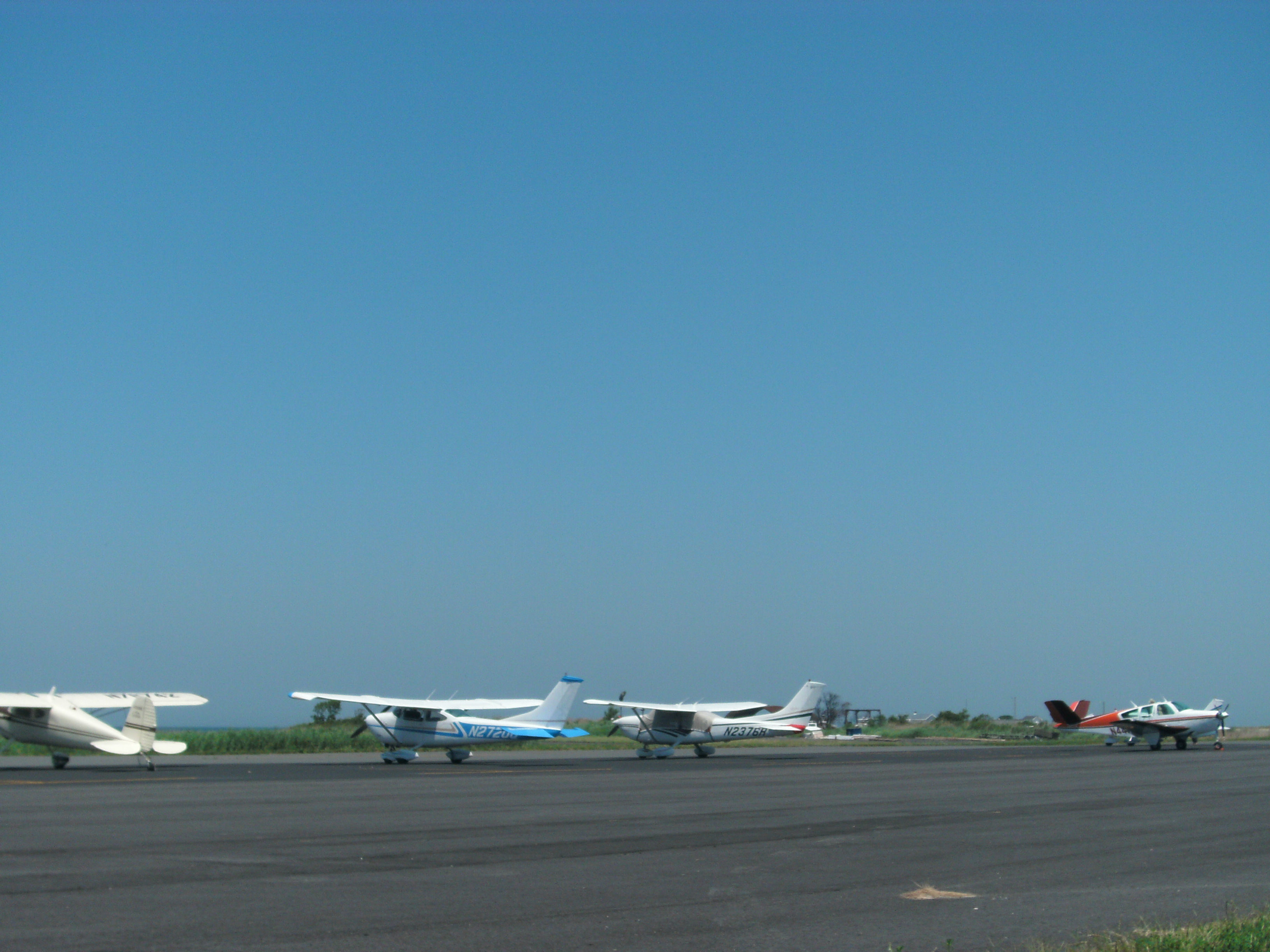 Tangier Island, May, 2010 GEDSC DIGITAL CAMERA